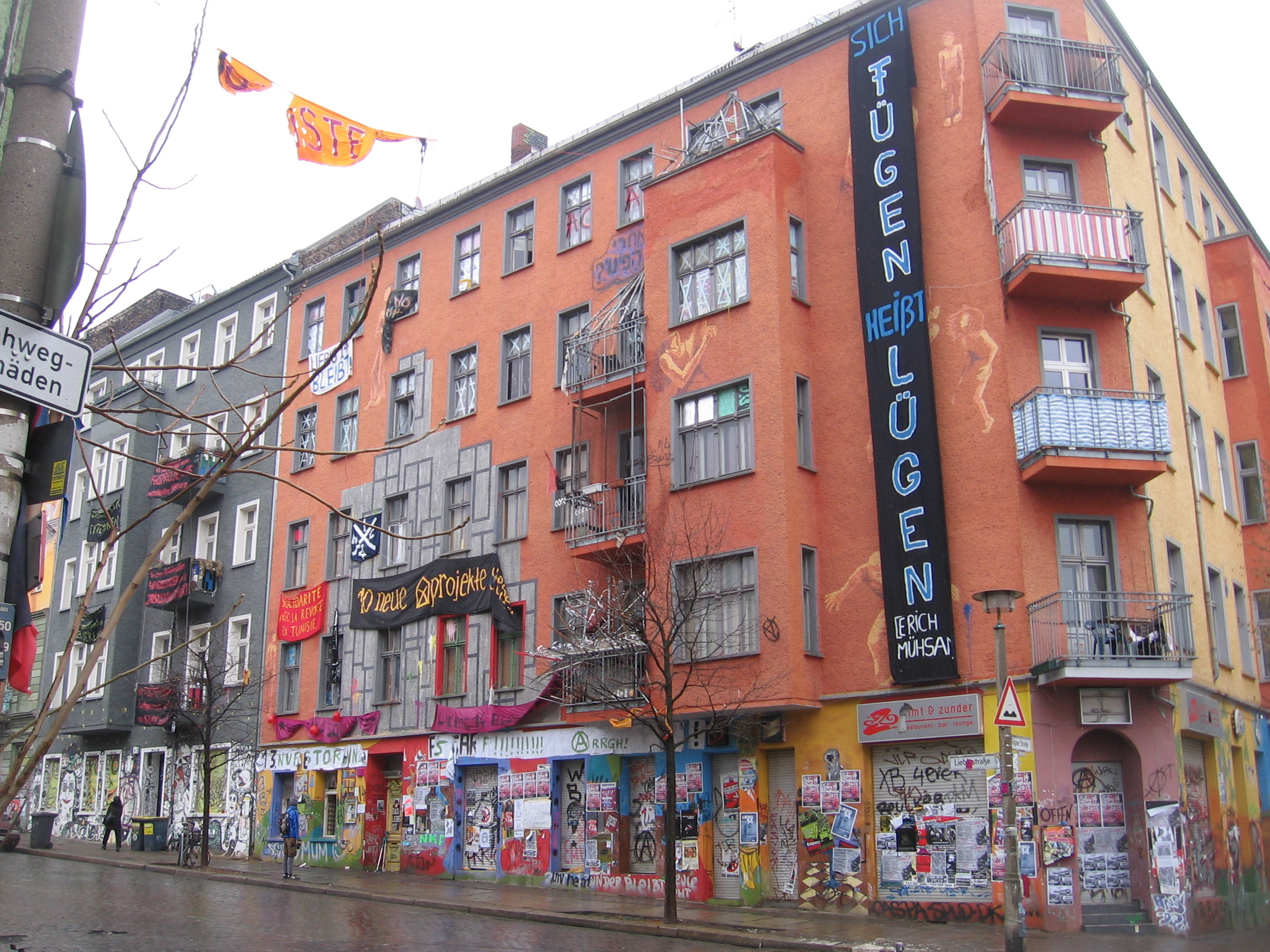 de: Liebigstraße 14, Berlin nach Räumung des Hausprojektes